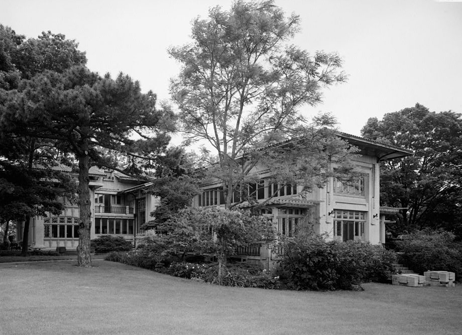 Bernard Corrigan House, Kansas City (Prairie Style); photo taken as part of the Historic American Buildings Survey